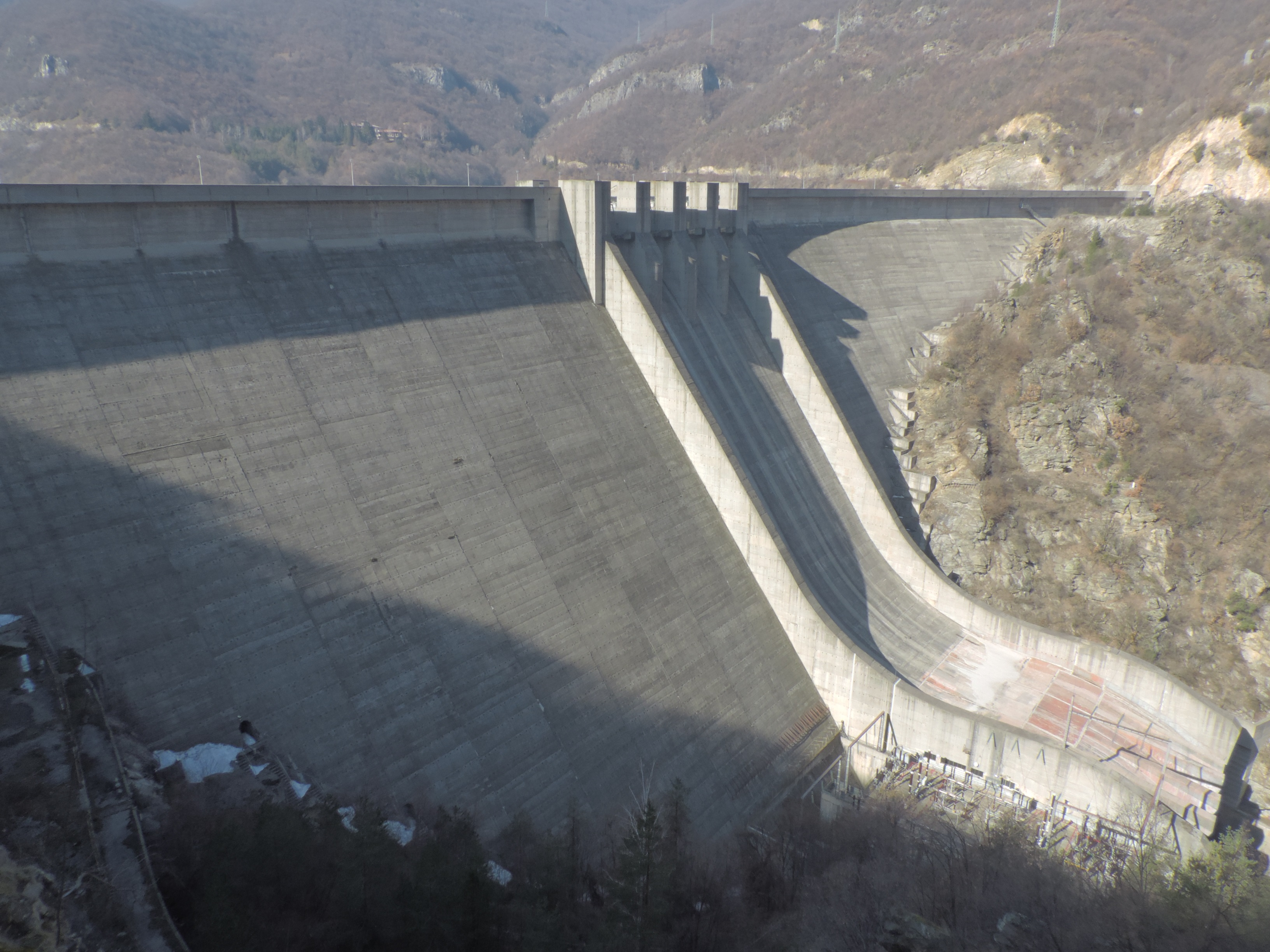 Wall of the Vacha (Vucha) Reservoir, Bulgaria